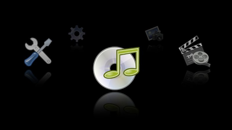 Elisa Media Center